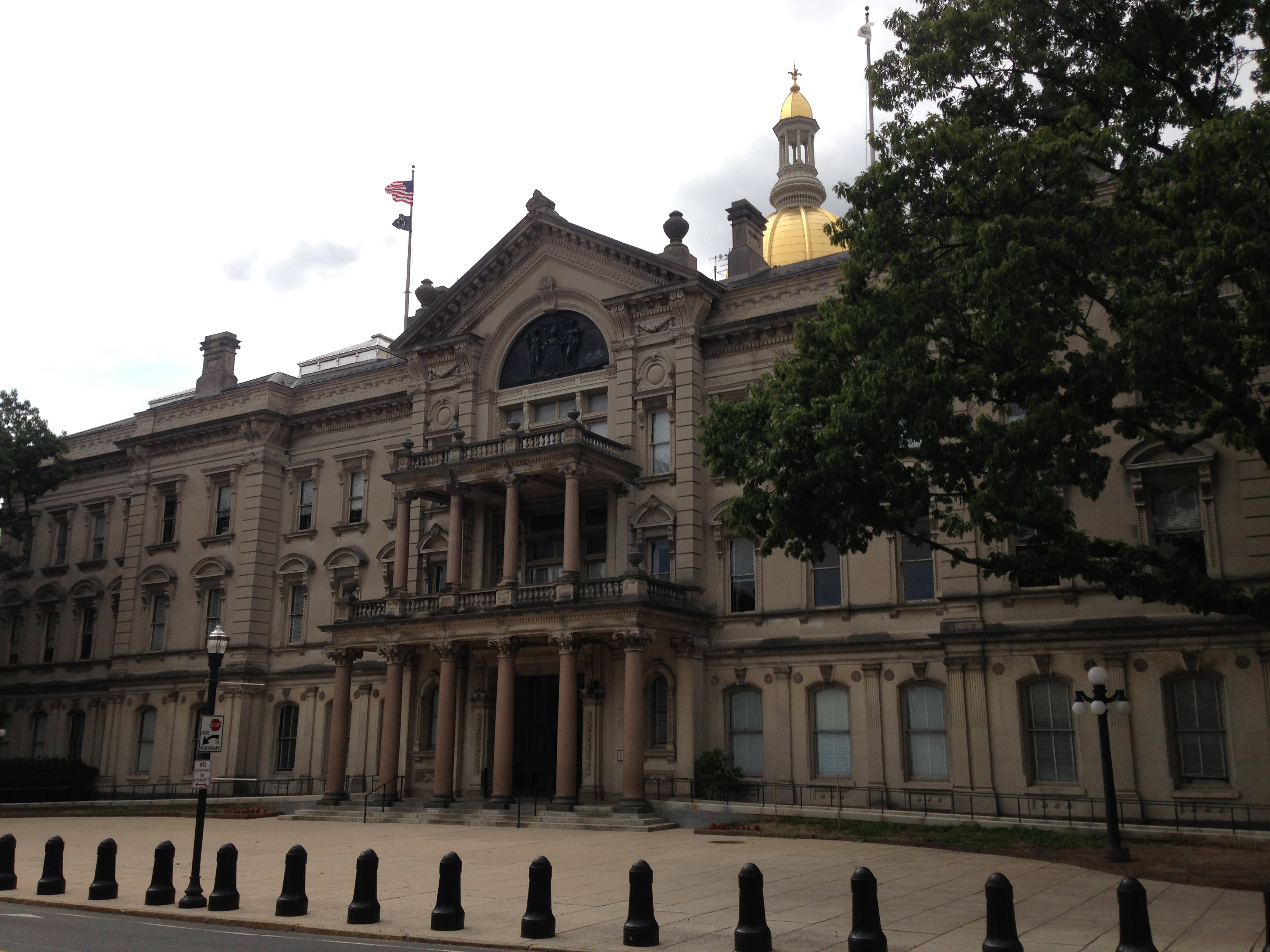 View of the New Jersey State House in Trenton, New Jersey from the north